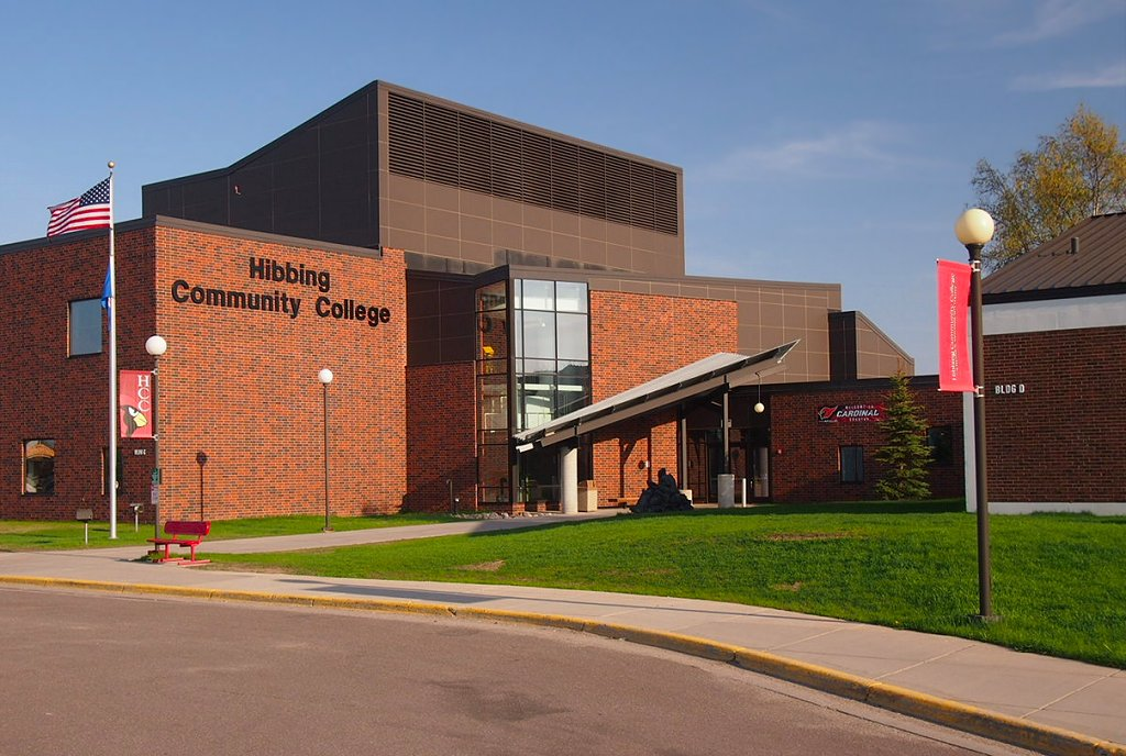 Hibbing Community College, Hibbing, Minnesota, USA. Viewed from the northwest.